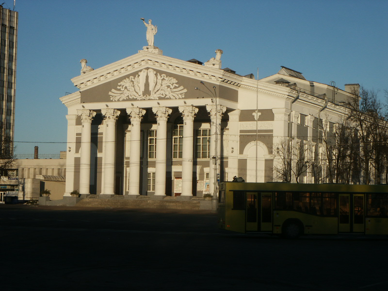 Regional Drama Theater. Homel, Belarus.